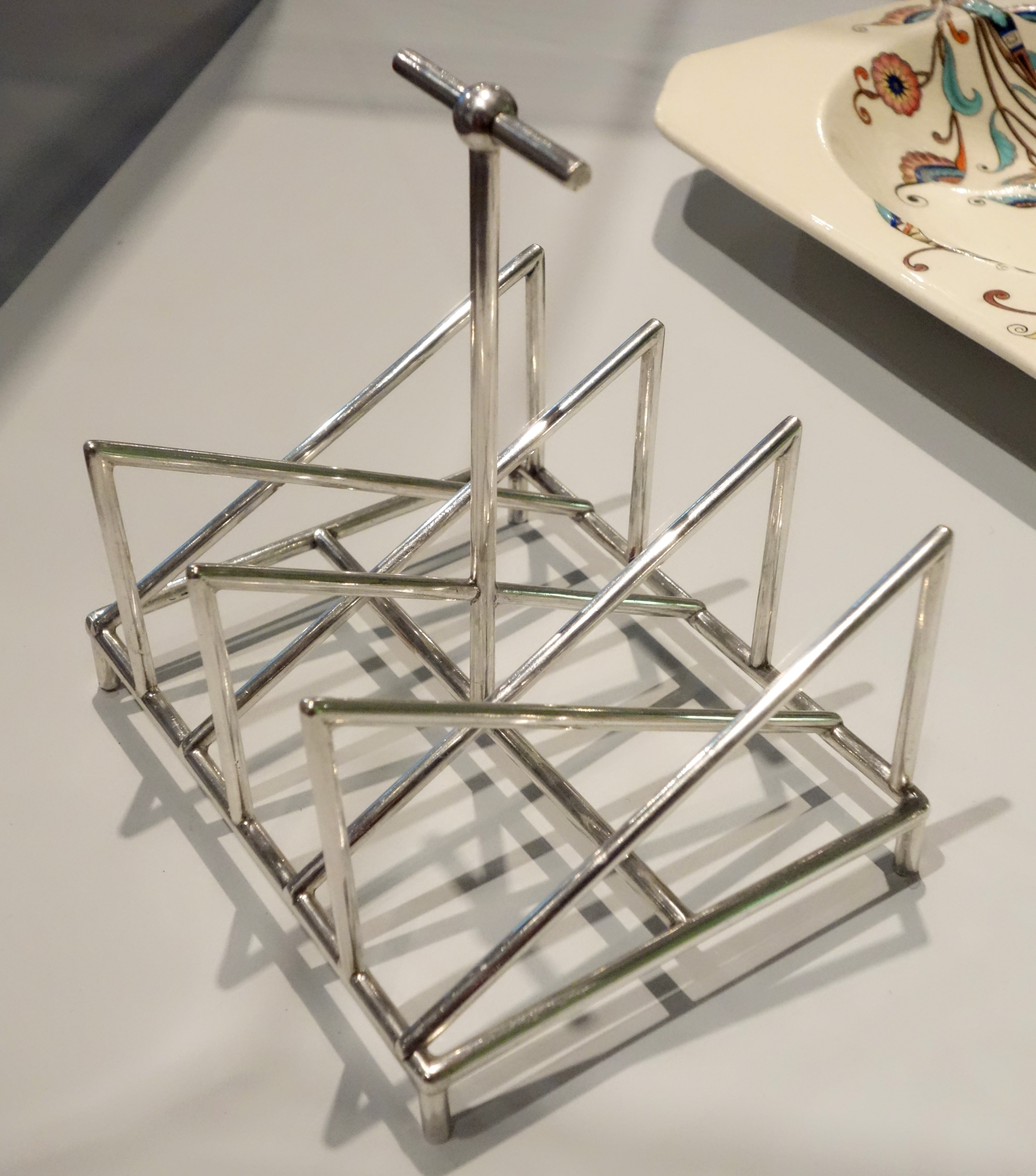 Exhibit in the Brooklyn Museum - Brooklyn, New York, USA. This artwork is in the public domain because the artist died more than 70 years ago.